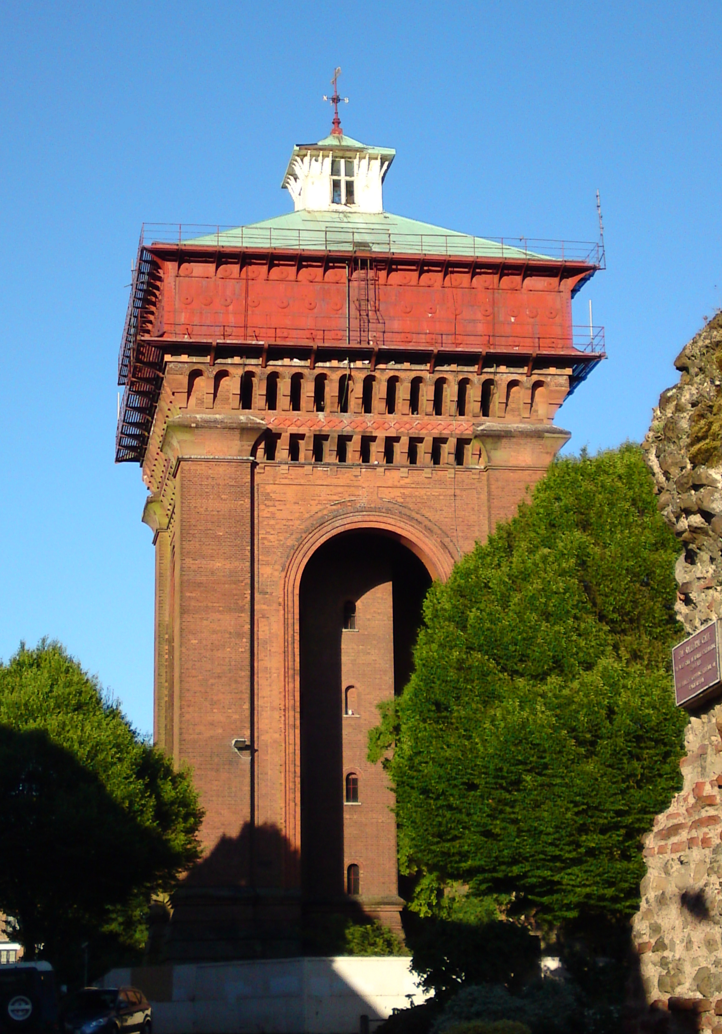 A photo of Jumbo water tower in Colchester, Essex, taken in June 2011. This image is taken from the West side of the tower, facing in an Easterly direction.